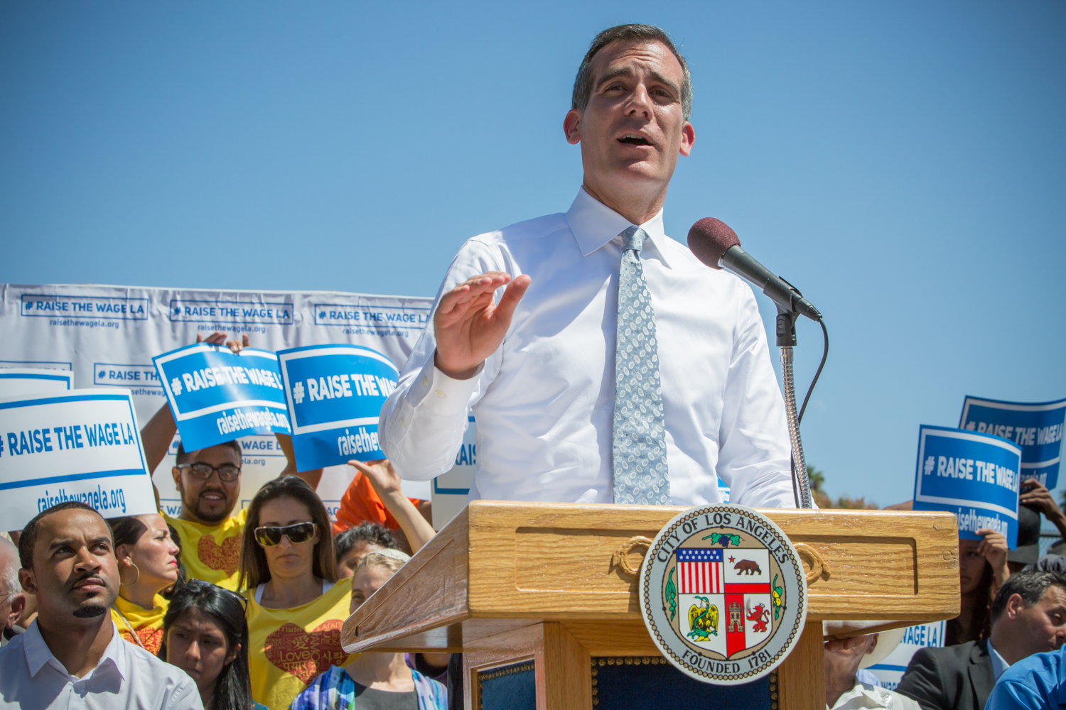 On Labor Day, Mayor Garcetti Launched the biggest anti-poverty program in LA history with a campaign to raise the minimum wage